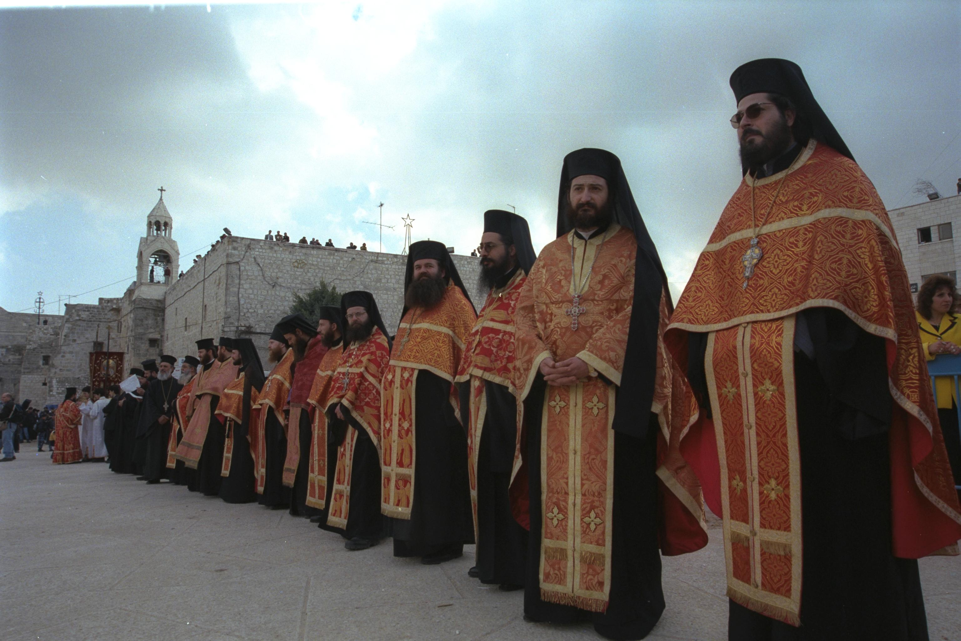 Greek orthodox clergy waiting for their patriarch during the greek orthodox christmas in Bethlehem (06/01/1999) כמרים יווני אורתודוכסים מחכים לארכיבישוף במהלך חגיגות חג המולד היווני-אורתודוכסי בבית לחם Photo: Moshe Milner (1946–) Alternative names Miylner, Moše; Milner, Mosheh; Moshé Milner; Milner, M.; Mîlner, Moše; Miylner, MošehDescriptionIsraeli photographerצלם ישראליDate of birth 1946 Location of birth Germany Authority control : Q28750411 VIAF: 100999744 ISNI: 0000 0001 0804 0507 LCCN: n82072104 GND: 115699732 BNF: 15548788n WorldCat creator QS:P170,Q28750411 .